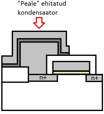 "Peale" ehitatud DRAMi kondensaatori skeem